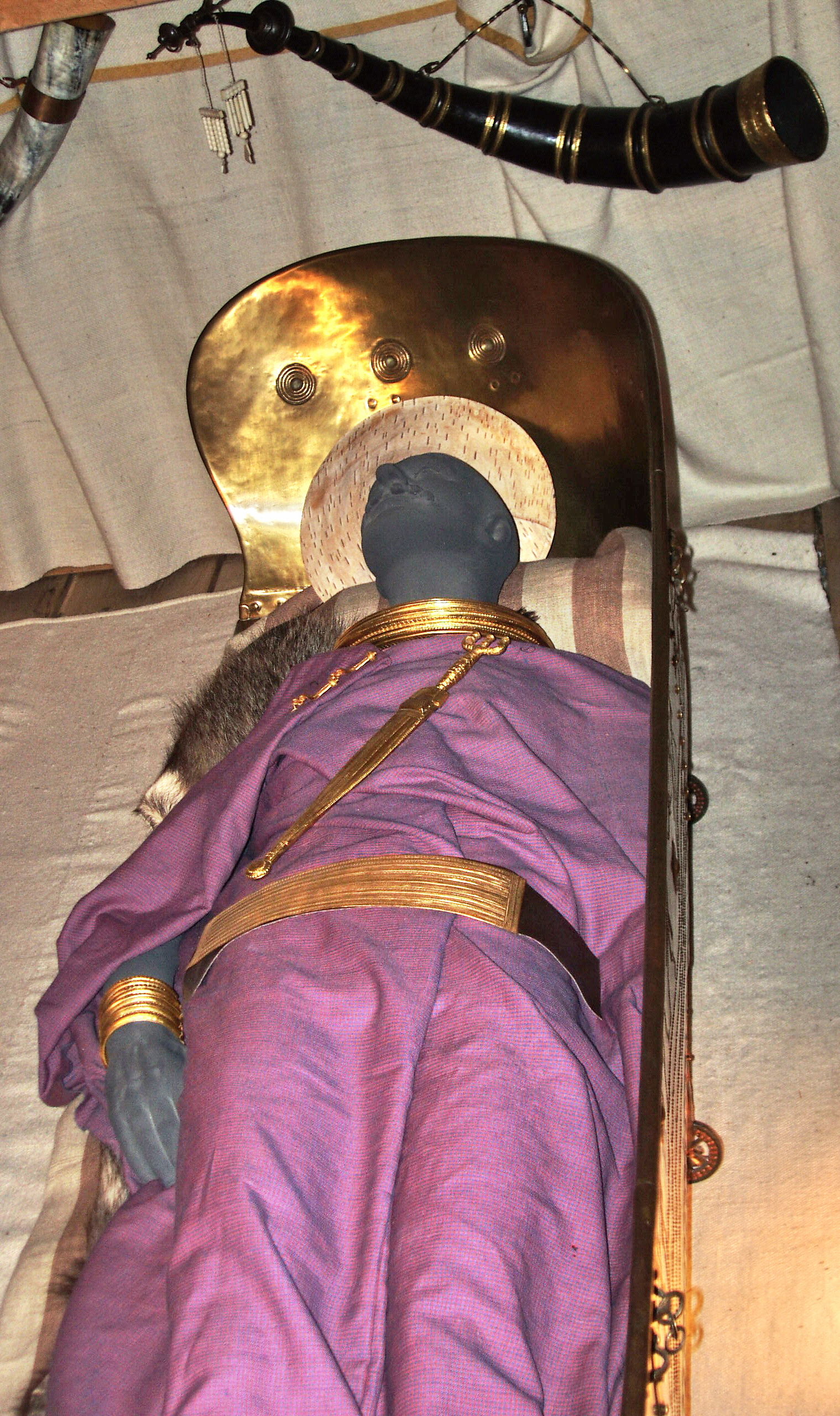 Reconstruction of the grave of a celtic prince in Hochdorf, Germany